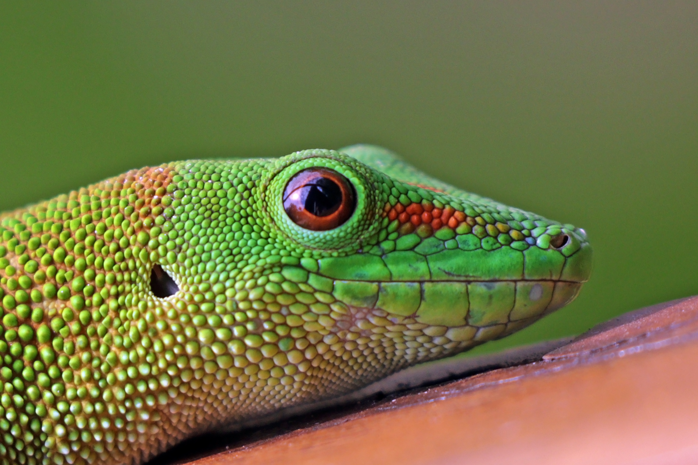 Madagascar giant day gecko (Phelsuma grandis) , Nosy Komba, Madagascar